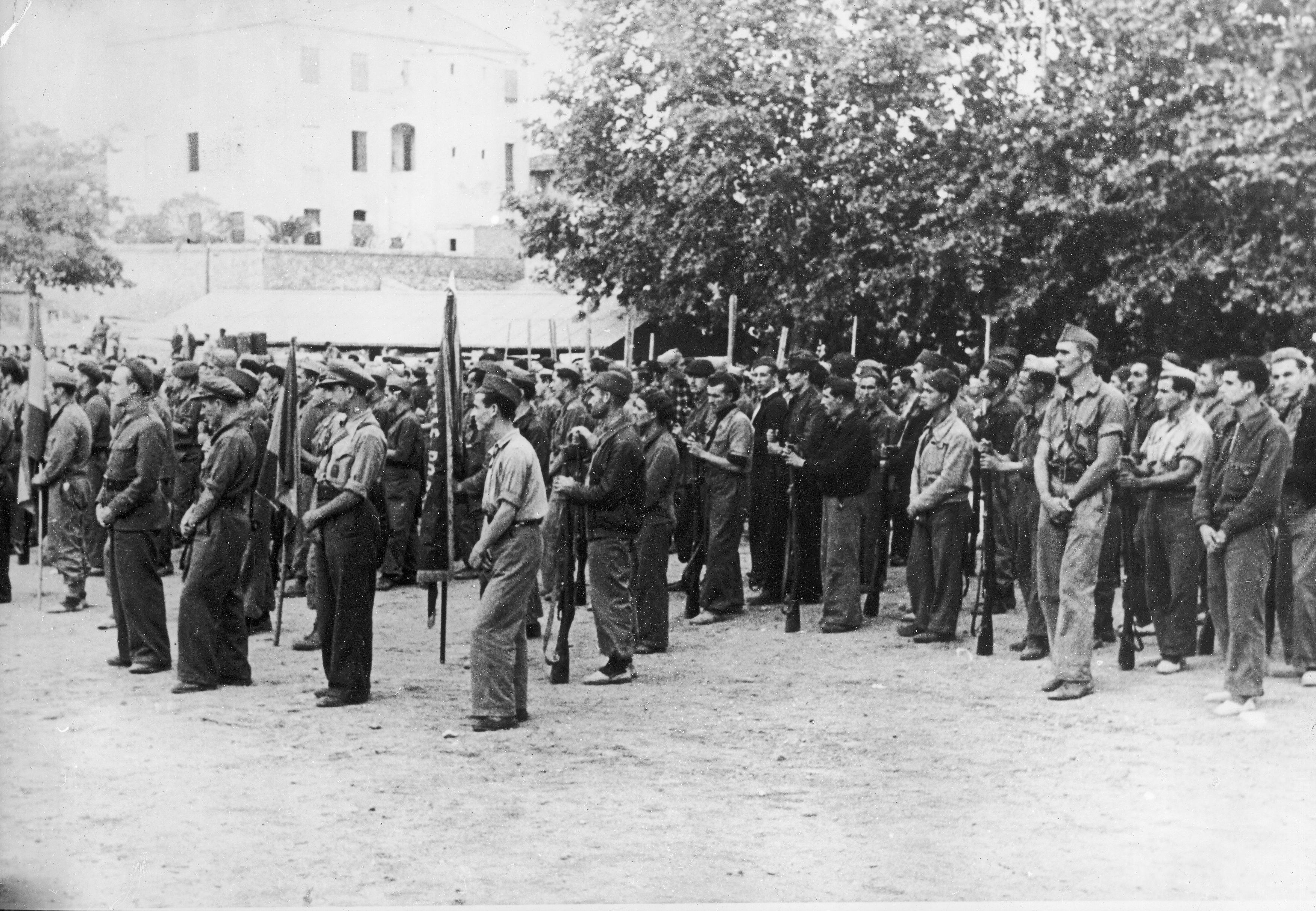 Members of the XV International Brigade, possibly the English Battalion, being farewelled during the Battle of the Ebro in the football field of Marçà